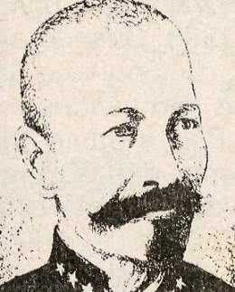 Jesús_Rabí